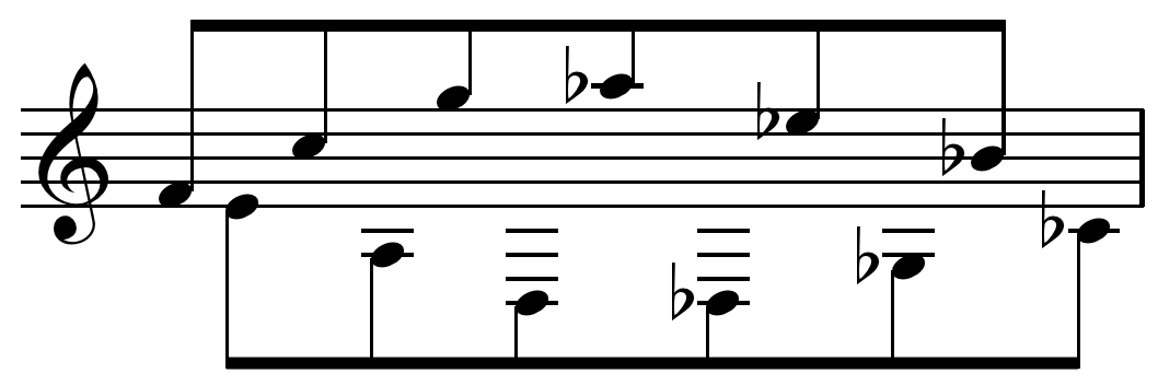 Tone row from the first movement of Alban Berg's Lyric Suite, according to George Perle.